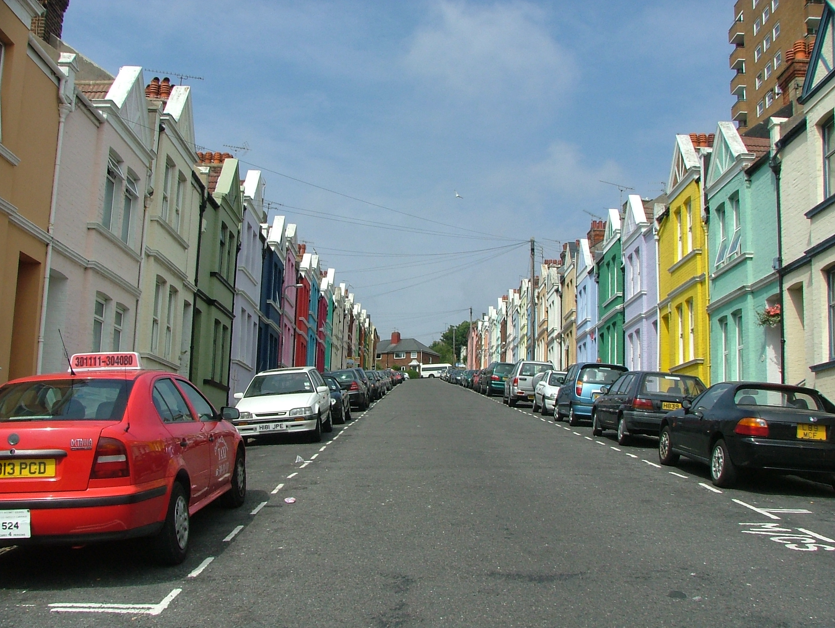 Blaker Street, a colorful street in Brighton, England Photo by Jan Kronsell, 2005